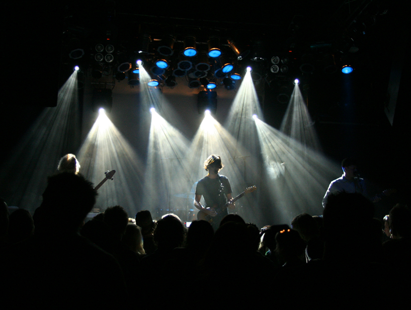 Caesars